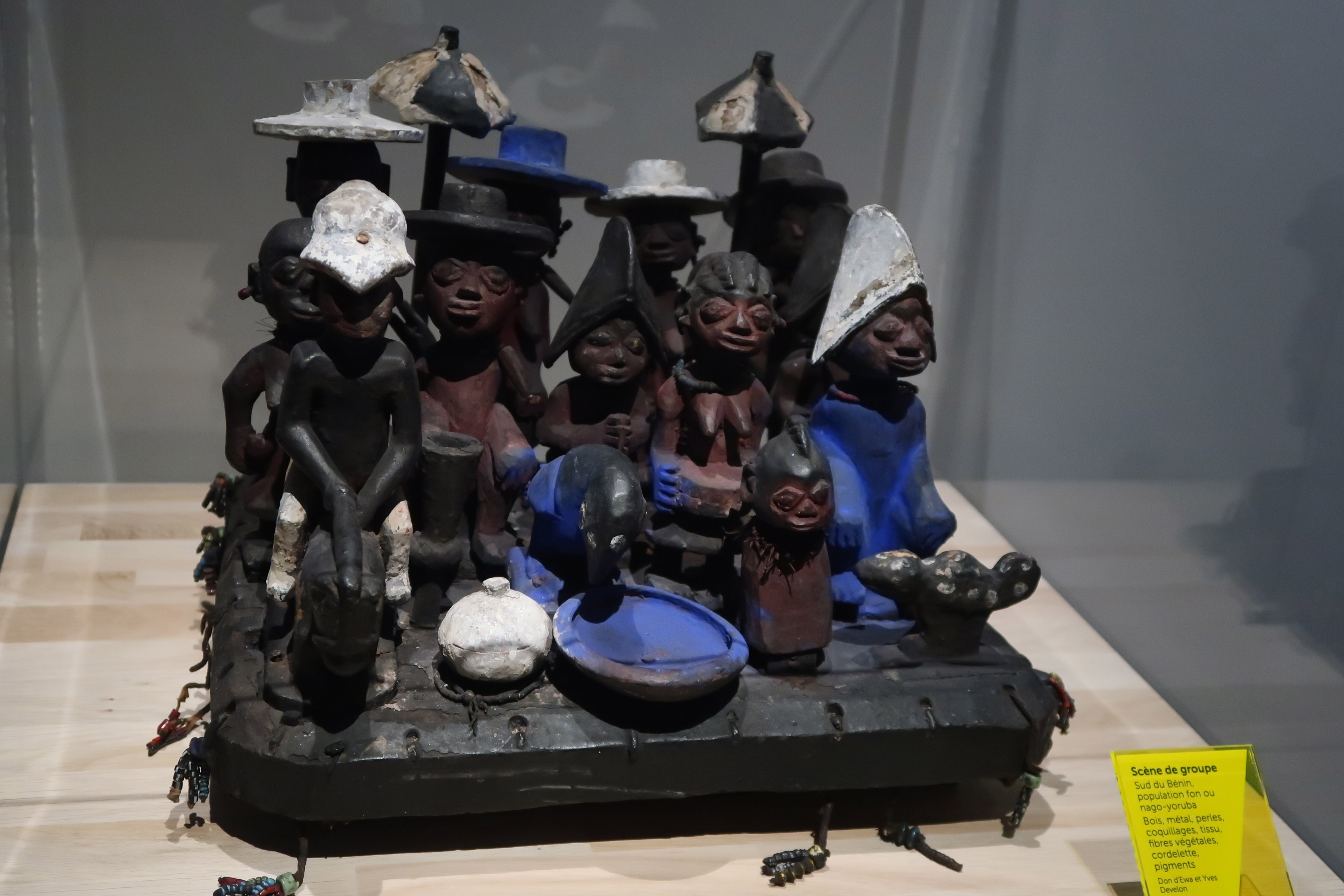 Group scene. Southern Benin. Fon or Nago-Yoruba people. Wood, metal, beads, shells, fabric, vegetable fibers, cord, pigments. Gift of Ewa and Yves Delevon. Inv. 2018.14.34. Musée des Confluences, Lyon, France